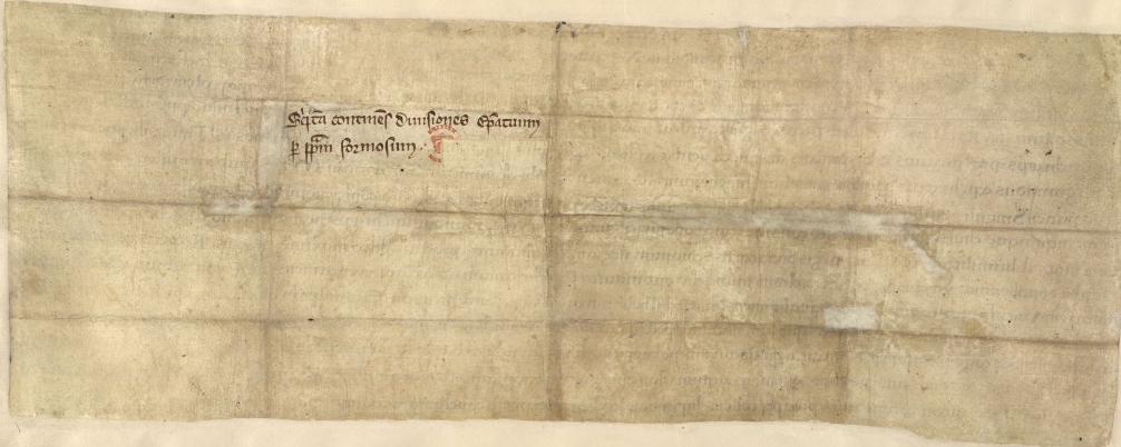 Text of Plegmund narrative: reverse of page with archivelabel (BL_Add_MS_7138, f_1v)